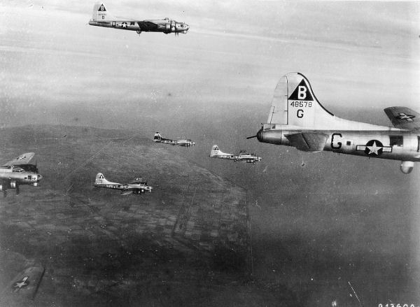 B-17s of the 92d Bomb Group on a mission over Nazi Occupied Europe. Visible is B-17G 44-8579 Source: National Archives via the United States Air Force Historical Research Agency, Maxwell AFB Alabama